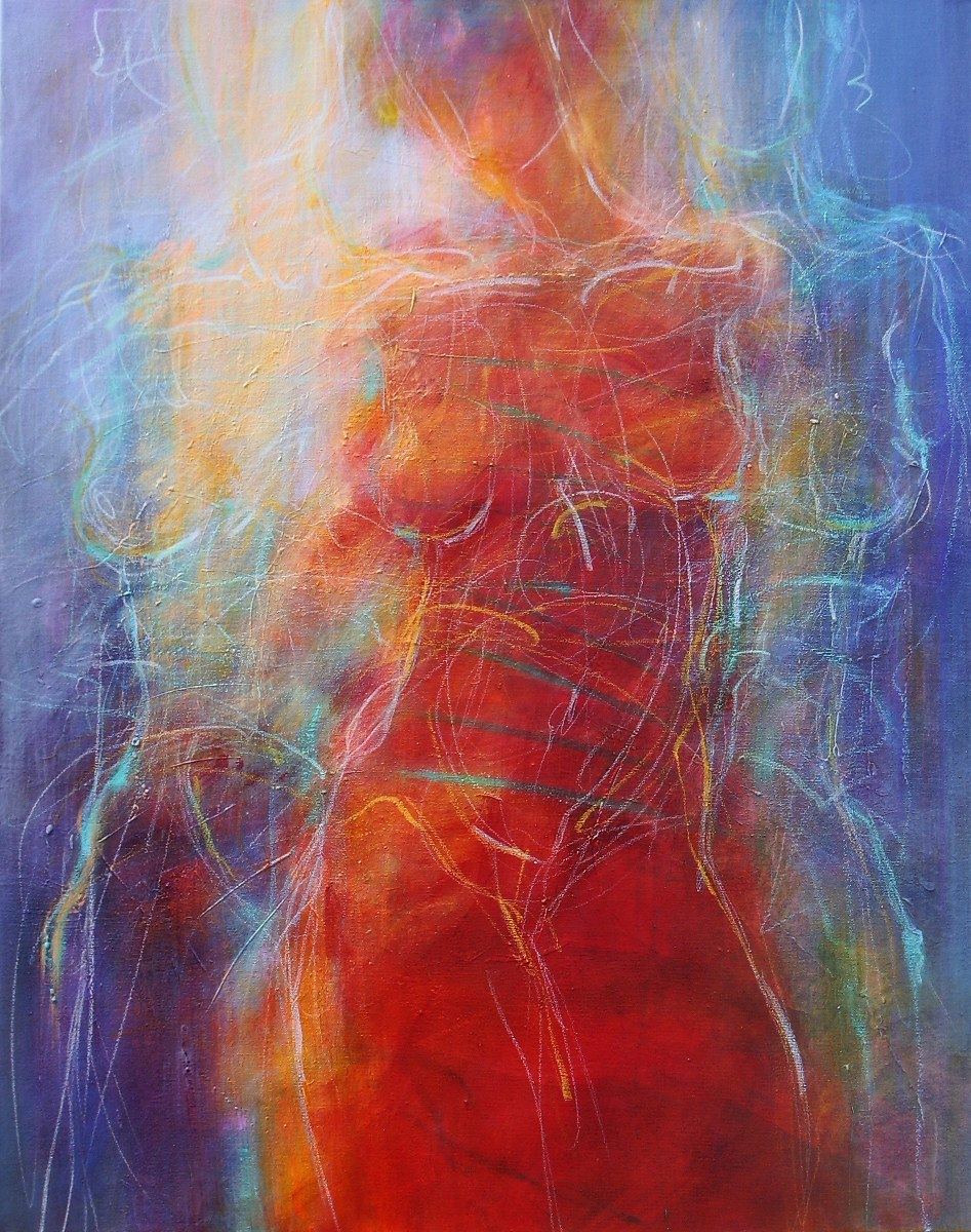 Act 2 painting by Antoni Karwowski.